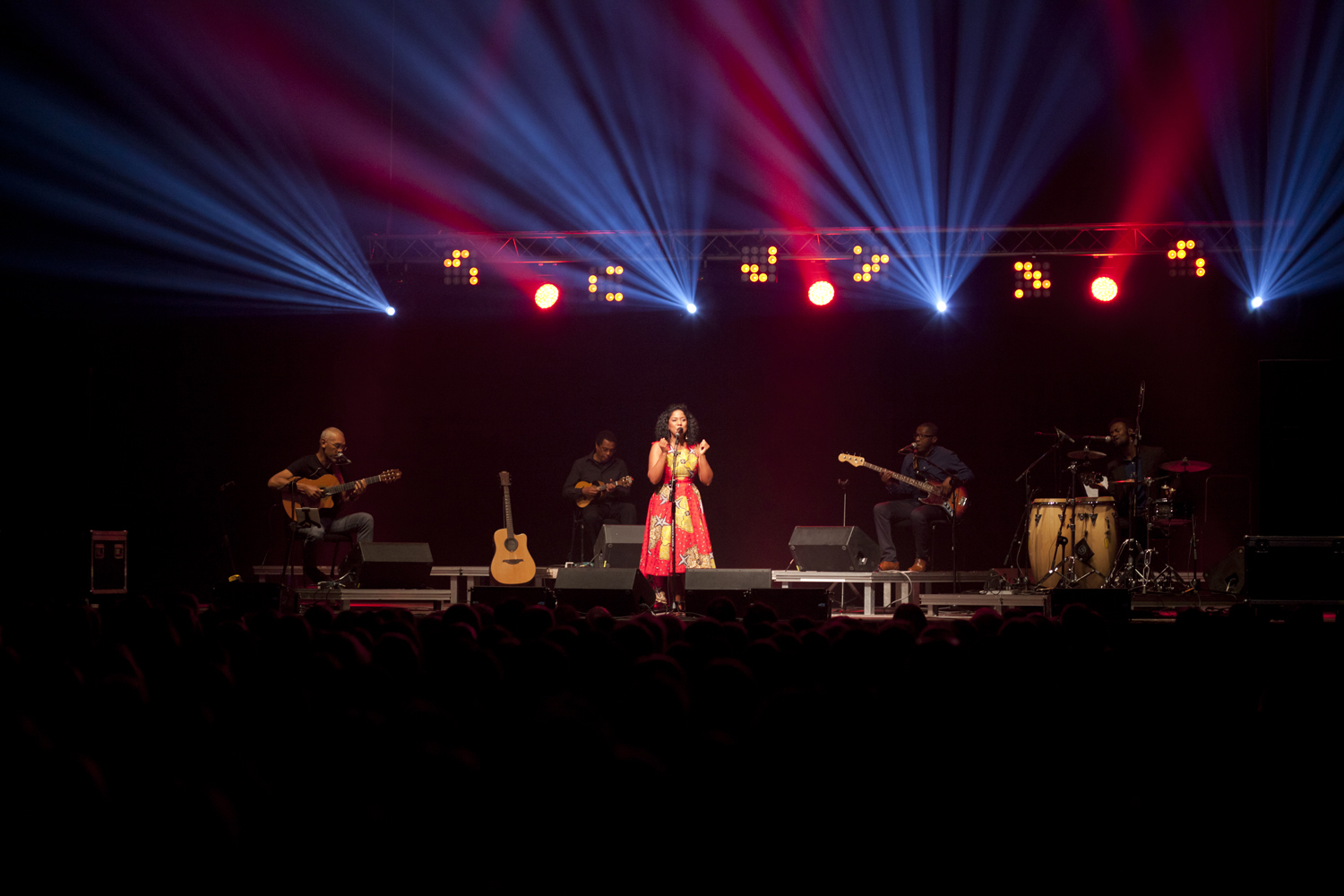 Nancy Veiria in Lodz, Klub Wytwórnia, Pic from FuninPoland.pl. The Picture was per the official press accreditation and permission of the concert's organizer.